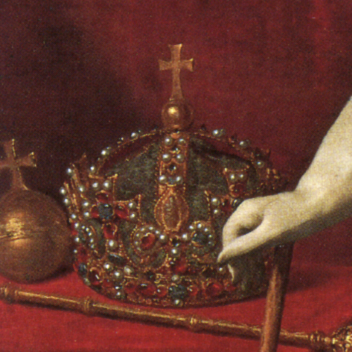 Henry VIII's Crown, or the Tudor Crown, in a painting of Charles I by Daniel Mytens.